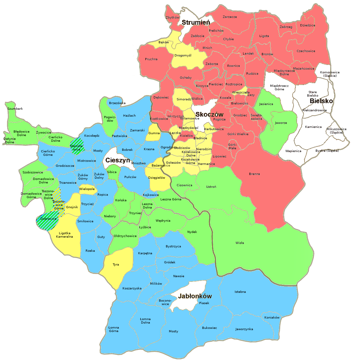 Austria-Hungary 1911 elections results, Walhbezirk 13 (round 1) and Wahlbezirk 14, red - Londzin, blue - Michejda, green - socialists, yellow - Kożdoń